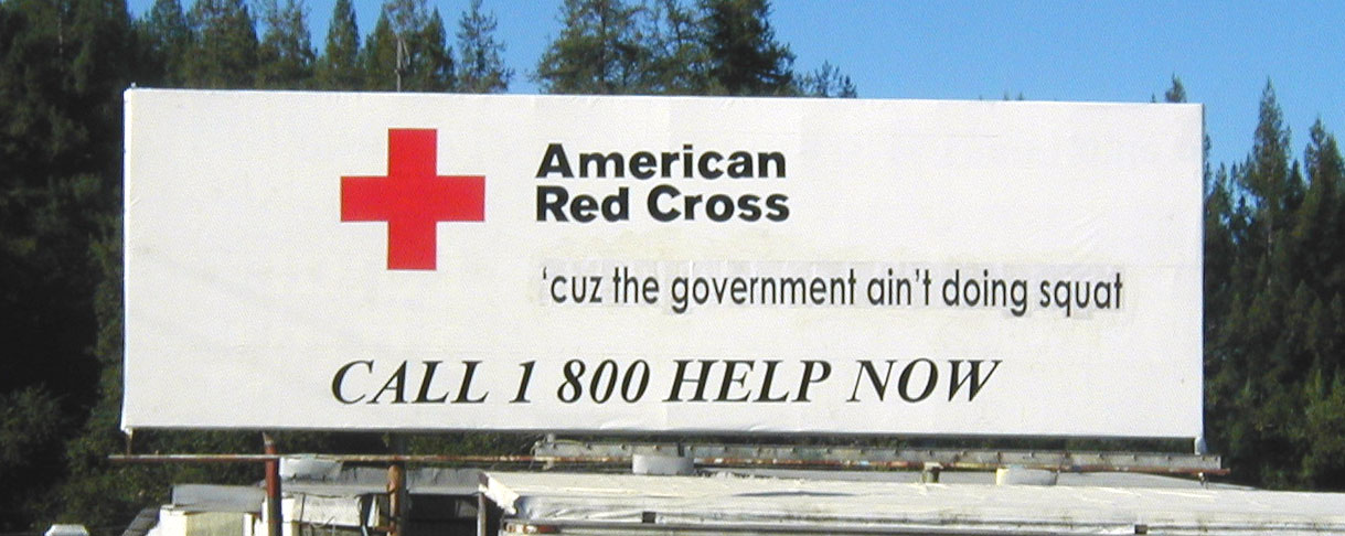 An example of billboard altered by the Billboard Liberation Front.